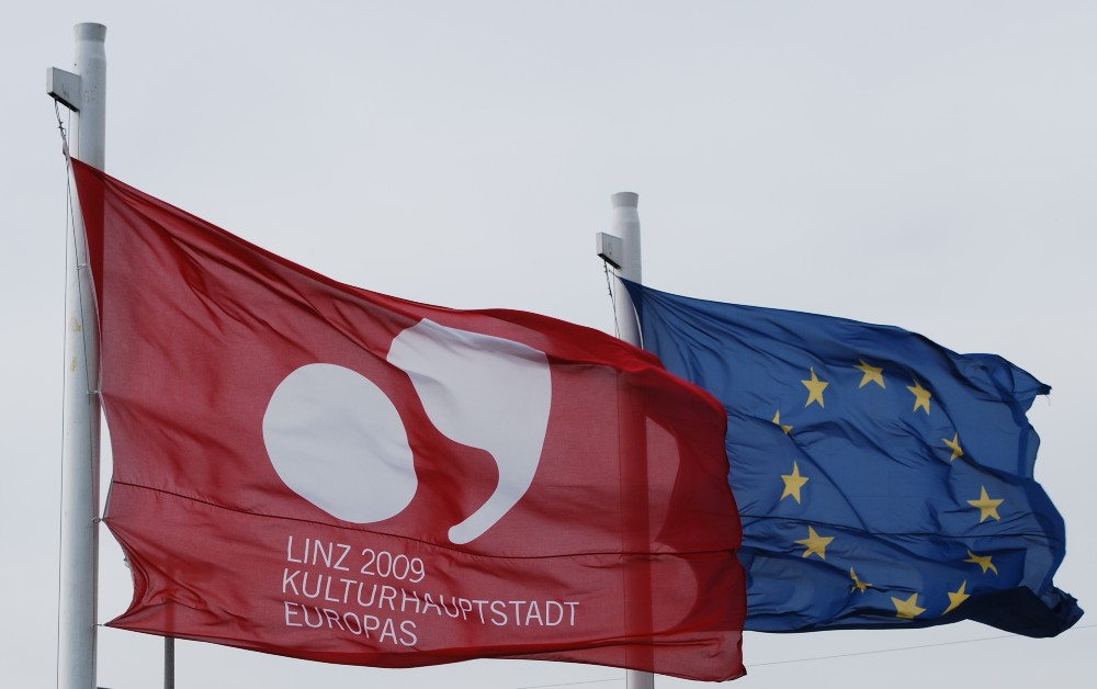 Flag with Logo of Linz 09 - European capital of culture